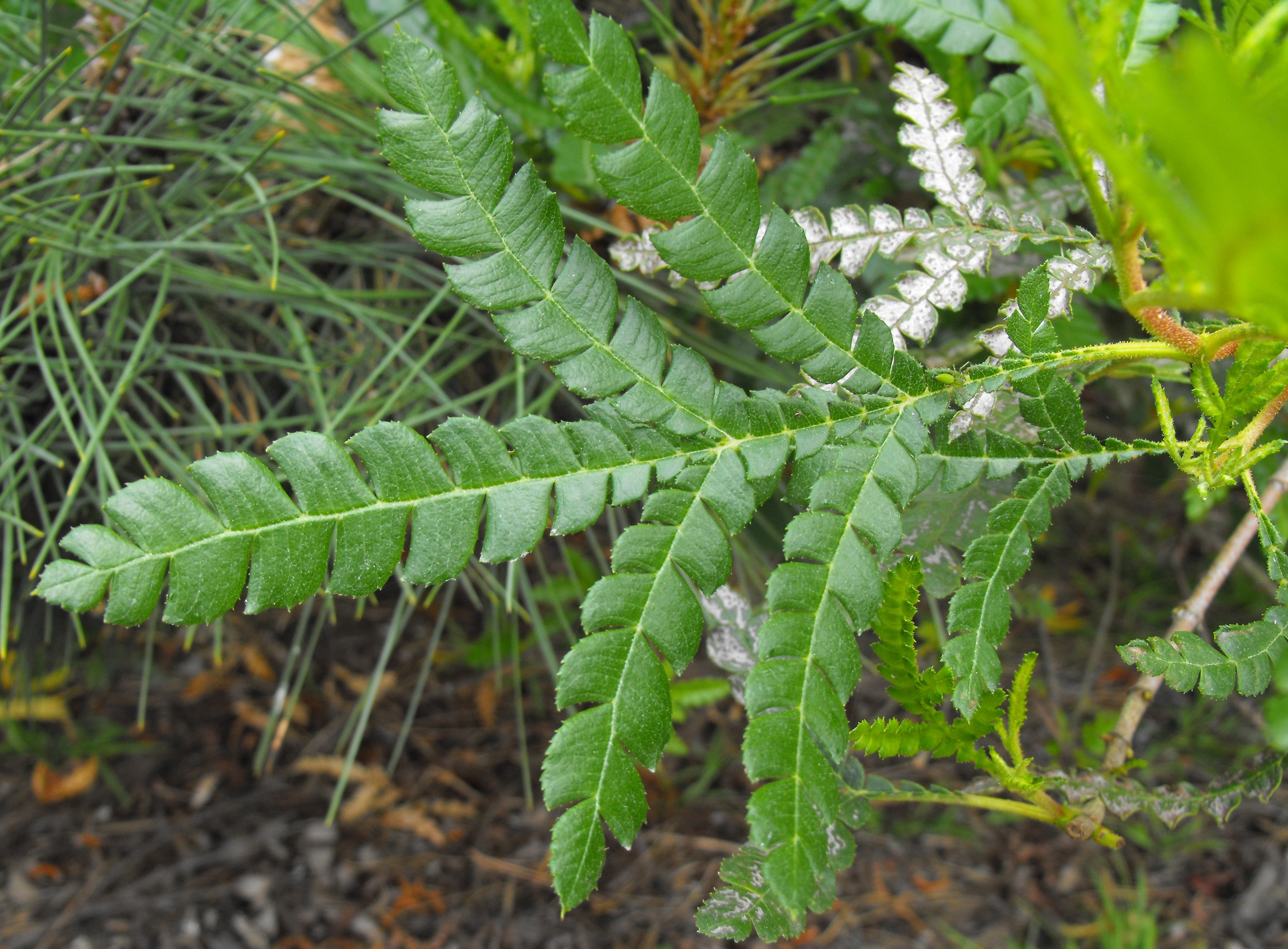 Lyonothamnus floribundus ssp. asplenifolius at Quail Botanical Gardens in Encinitas, California, USA. Identified by sign.